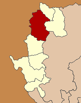 Map of Mae Hong Son province, Thailand, highlighting Amphoe Mueang Mae Hong Son (อำเภอเมืองแม่ฮ่องสอน).